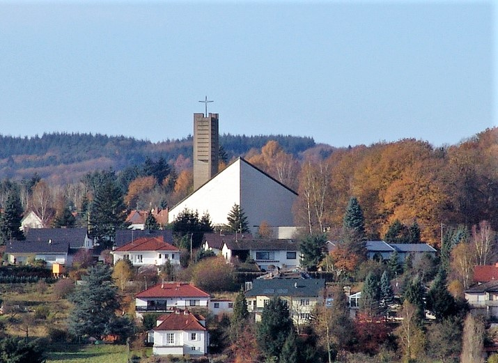 Former church of St. Josef in Mettlach-Keuchingen